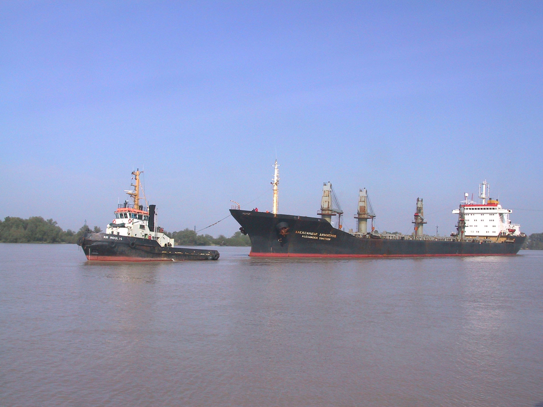 Tug RM Moulis helping bulk carrier Alexander Dimitrov on Gironde estuary to approach a subsidiary of Bordeaux port, France. Alexander Dimitrov IMO Number: 8417766 MMSI Number: 207015000 Callsign: LZEM Length: 20 m Beam: 28 m RM Moulis IMO Number: 8120600 MMSI Number: Callsign: ORLO Length: 29.49 m Beam: 9.05 m